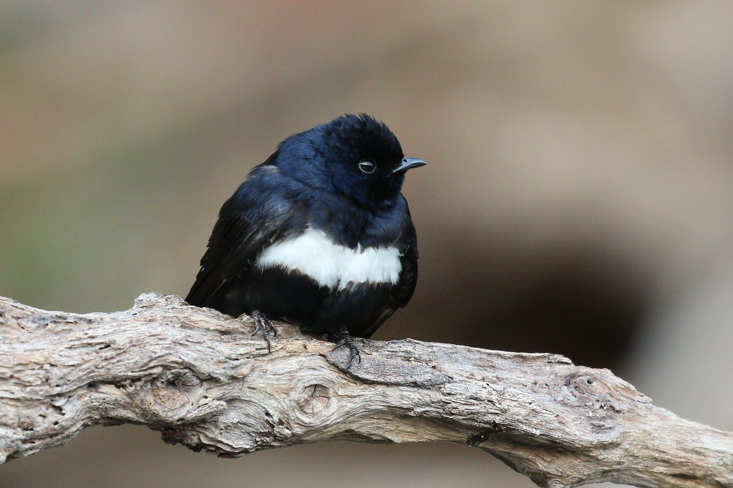 White-banded swallow (Atticora fasciata), Cristalino River, Southern Amazon, Brazil